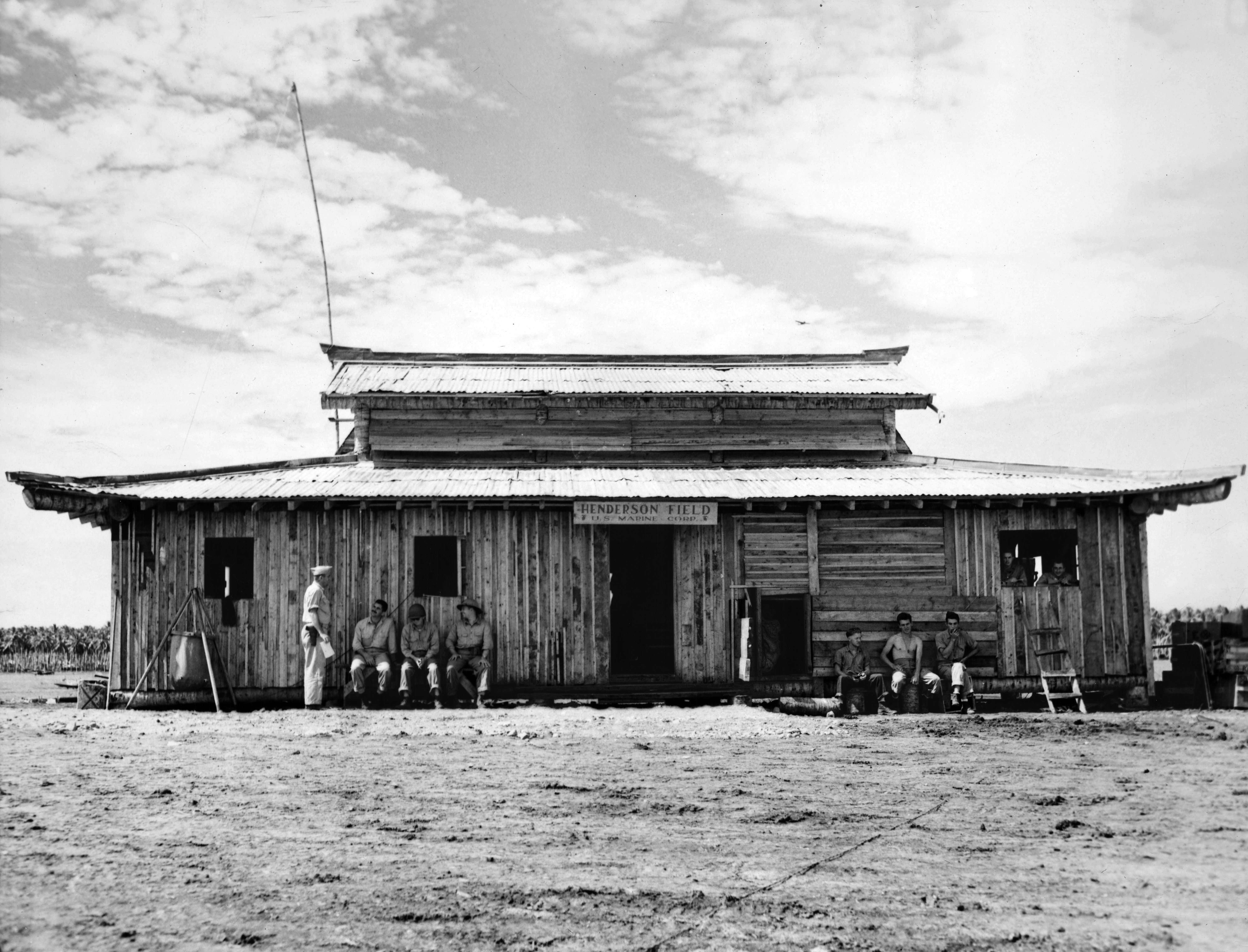 View of "The Pagoda" that served as flight operations headquarters for the U.S. Marine Corps and U.S. Navy fliers at Henderson Field, Guadalcanal, from August to October 1942. During July 1942, this building was built by the Japanese on a small rise to the north of the runway. The flagpole visible was used to indicate incoming air raids. In early October, its radio equipment was moved into the newly dug radio tunnel. After the Japanese battleship bombardment on 13-14 October 1942, General Geiger concluded that the roof was reflecting the flares and it was being used as a registration point, so ordered it to be bulldozed over the side of the hill.